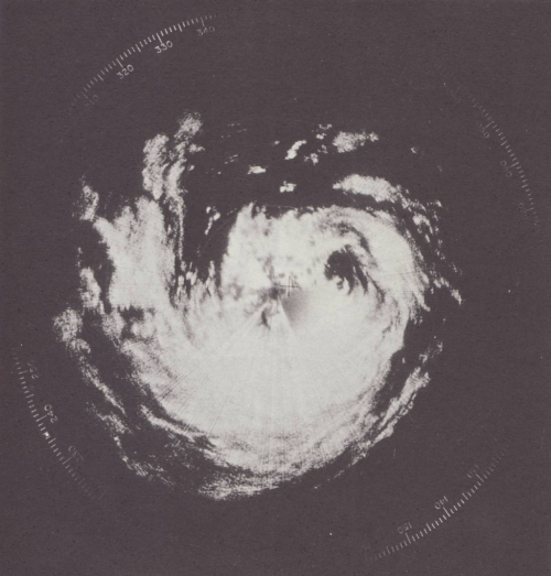 Super Typhoon Hope of 1979 near landfall in Hong Kong. Its eye was about 45 km east of the New Territories.